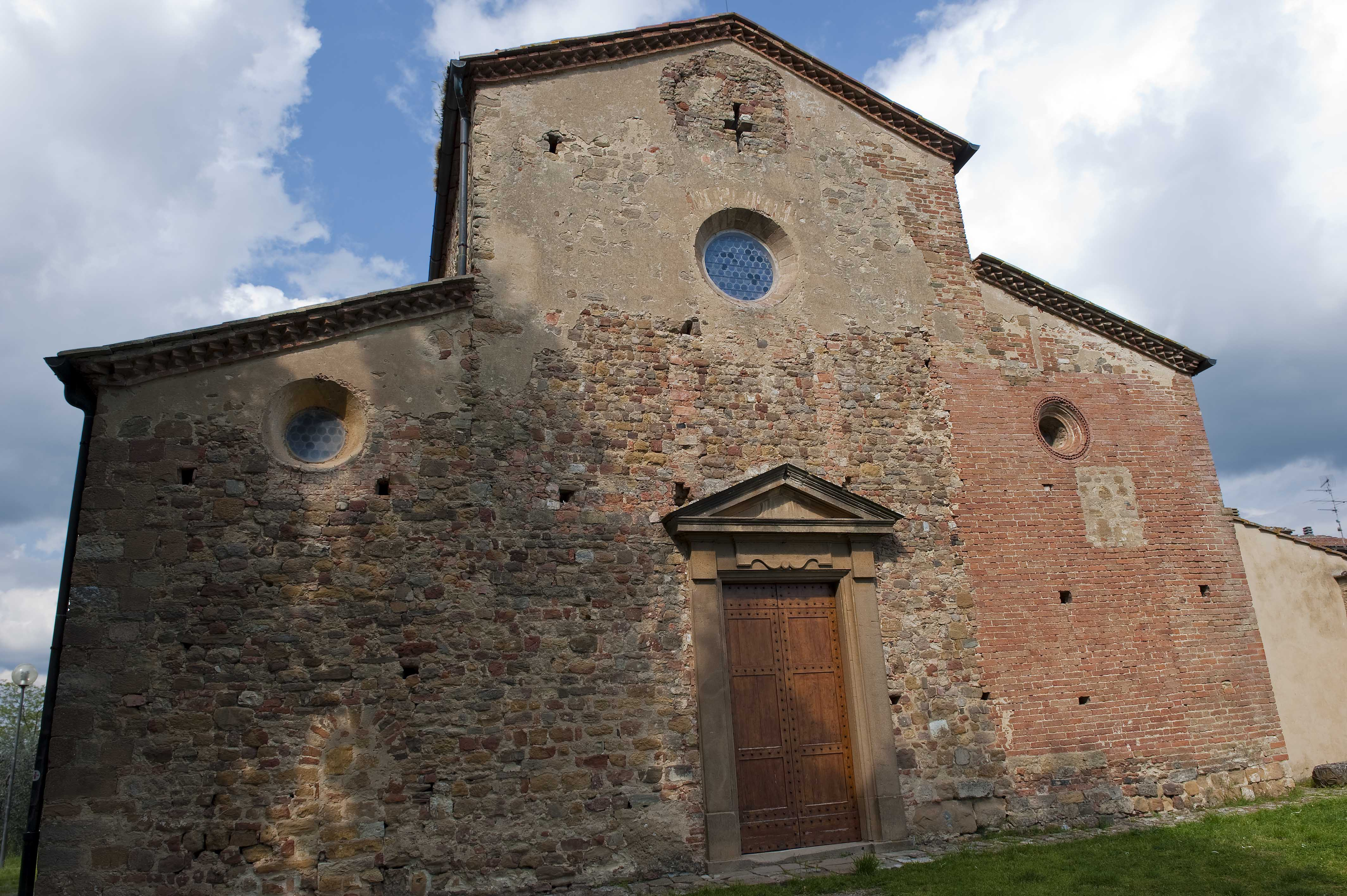 Church of Saint Appiano Native namePieve di Sant'AppianoLocationBarberino Val d'Elsa, Florence, Tuscany, ItalyCoordinates43° 30′ 47.53″ N, 11° 08′ 48.63″ E Established990 (Already recorded)